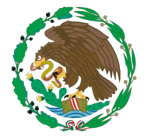 Mexican coat of arms version used in 1881-1898. The arms were designed by Tomás de la Peña, a great mexican painter of that time.